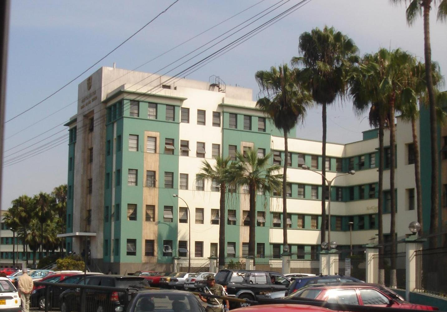 Central Army Hospital "Coronel EP Luis Arias Schreiber" - Jesús María District, Lima (Peru).